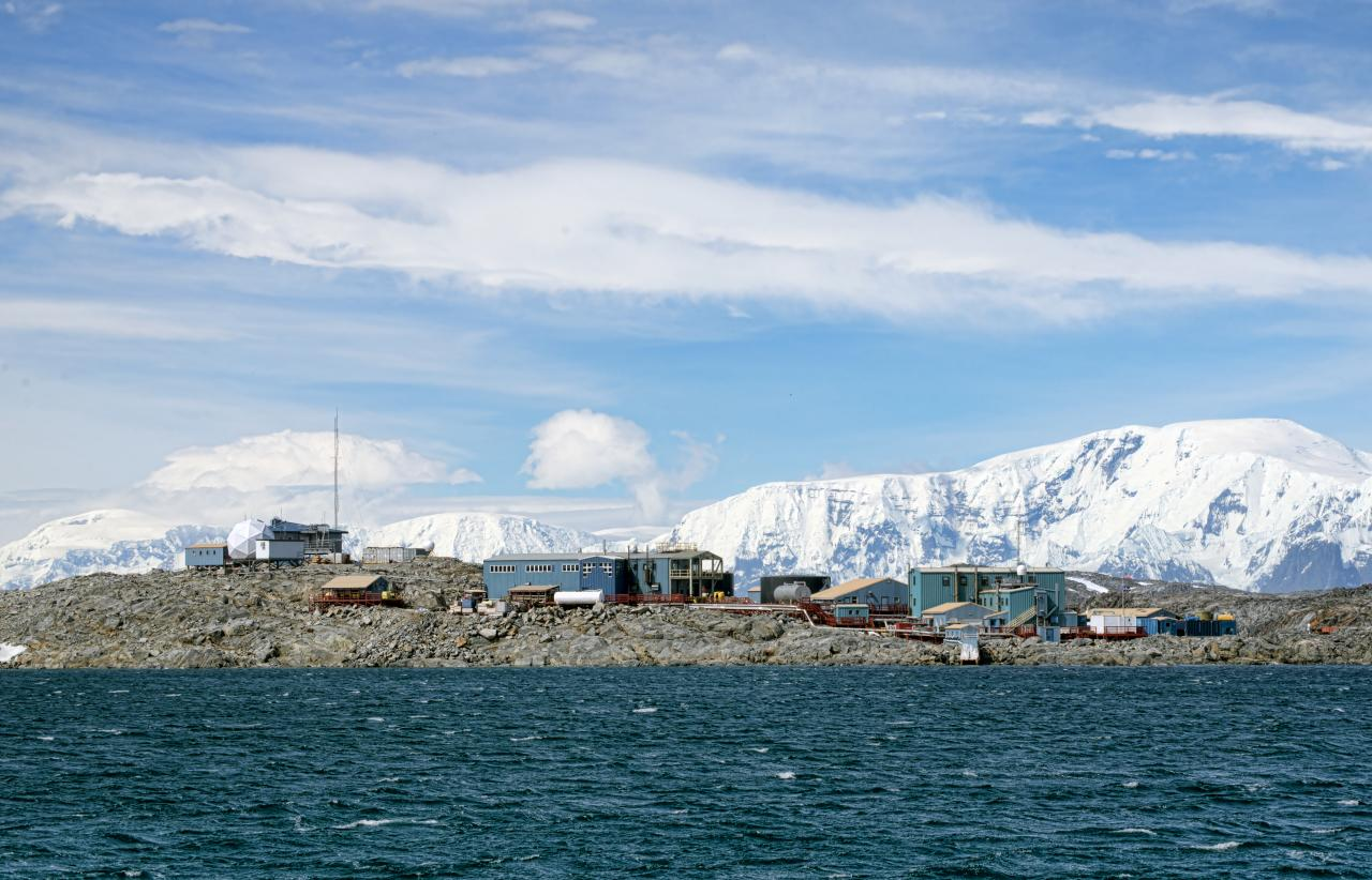 Palmer Station in Antarctica